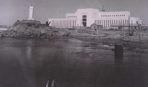 Reading Power Station A, c. 1938 based on the construction state. Also seen is the lighthouse.